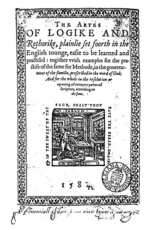 Frontispiece of the Art of Logic by Dudley Fenner